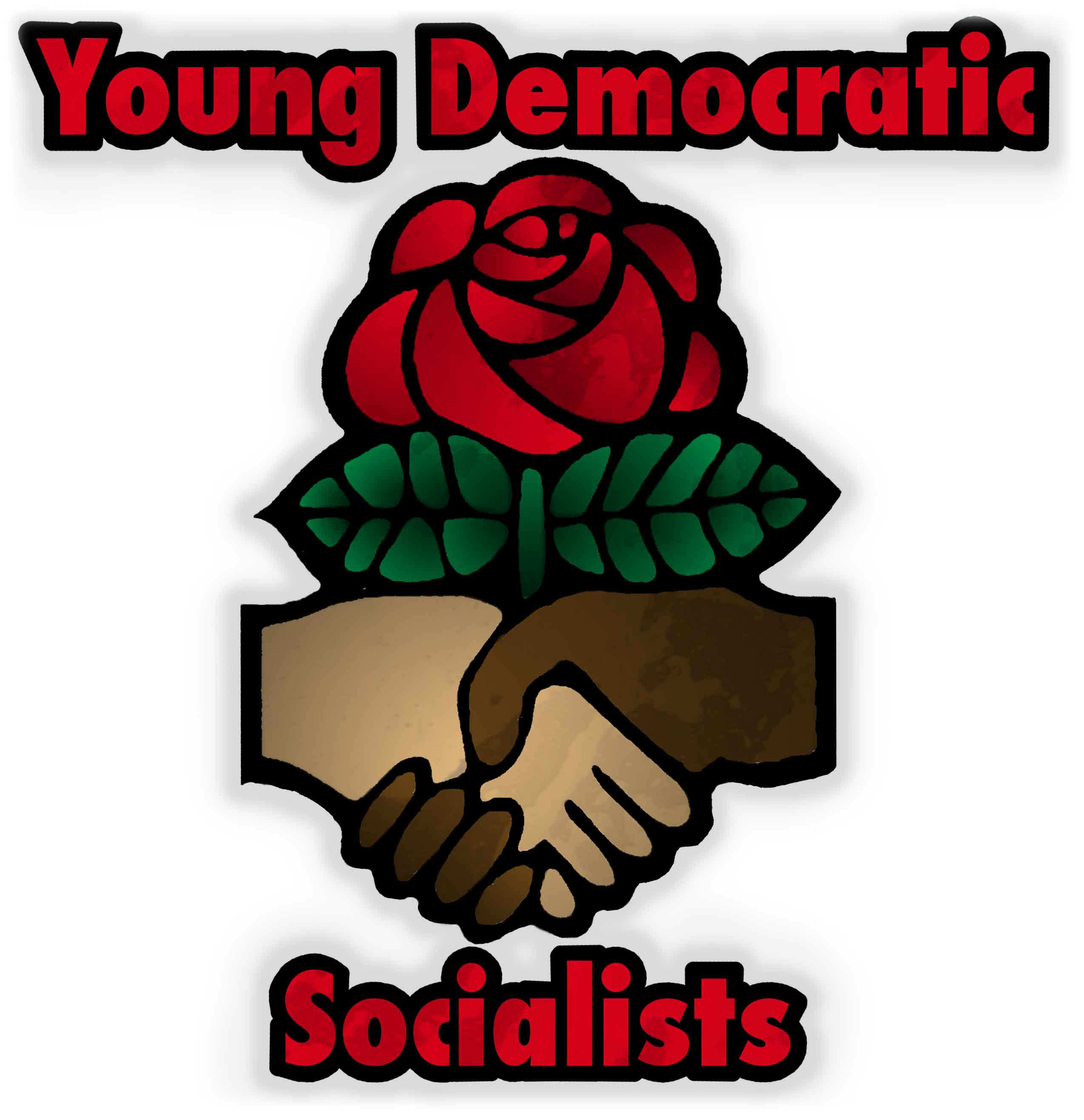 New, simple logo for YDS.